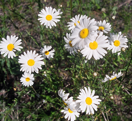 Ox-eye daisy (Leucanthemum vulgare) is an introduced species to North America. It was first brought over in the 1600s and has spread westward to occupy the whole of Canada. While flower-lovers enjoy this bright, cheerful plant, it is a bane to farmers, as its aggressive growth crowds out forage plants. The daisy blooms from May to December, and prefers disturbed sites. Ø2004 D. Windrim Captioned As { }